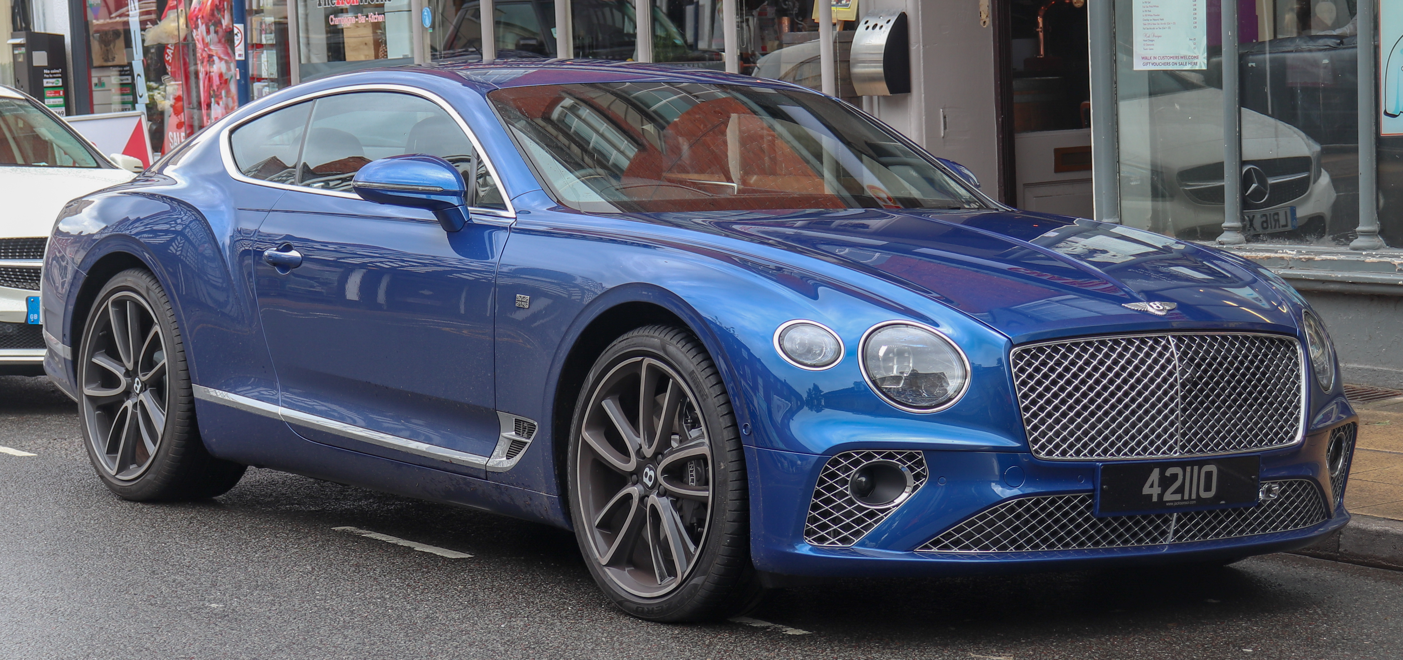 2019 Bentley Continental GT Coupe 6.0 Front Taken in Warwick